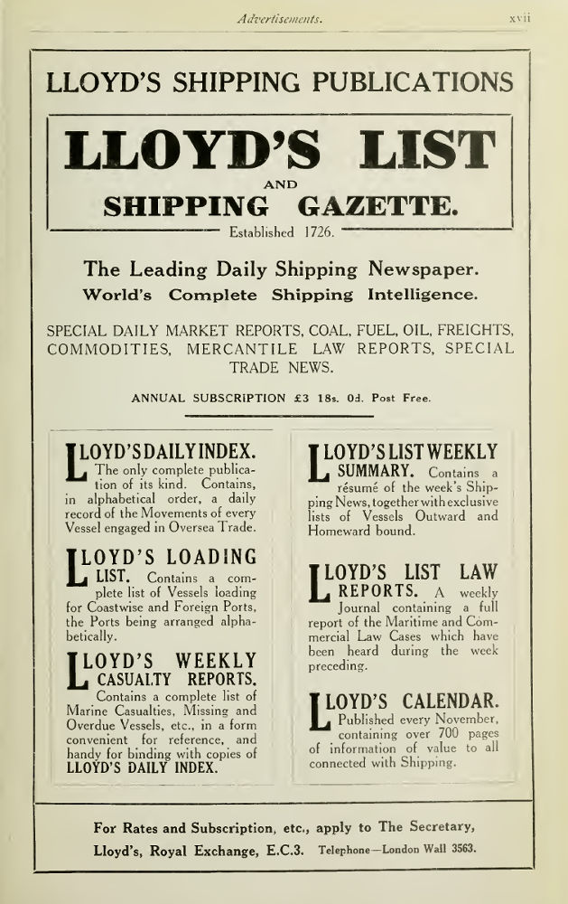 Advertisement for Lloyd's List and Shipping Gazette, in Brassey's Naval Annual 1923.